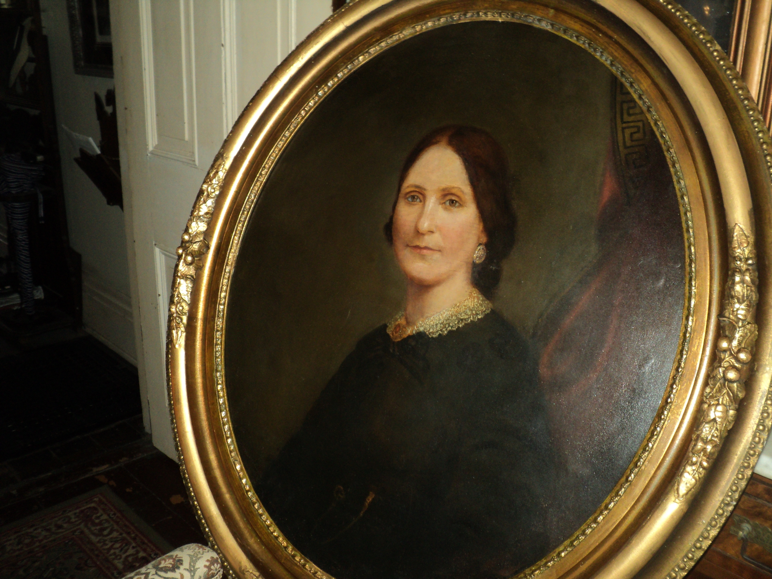 Oil portrait of an unidentified woman. Signed by the artist, Marcus Mote, and dated 1870 at Richmond, Indiana.